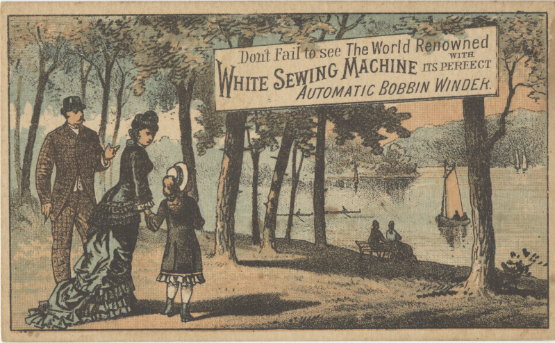 Persistent URL: Subject (TGM): Families; Family; Waterfronts; Lakes & ponds; Sewing equipment & supplies; Sewing machines; Sewing machine industry; Keywords: Automatic Bobbin Winder